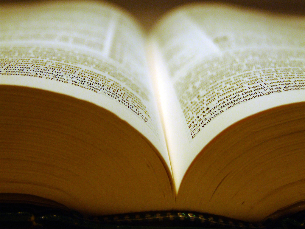 Shot of a bible with a very small depth of field. Not quite focusing on the extremely fine Bible paper used, but it should help get the point across.